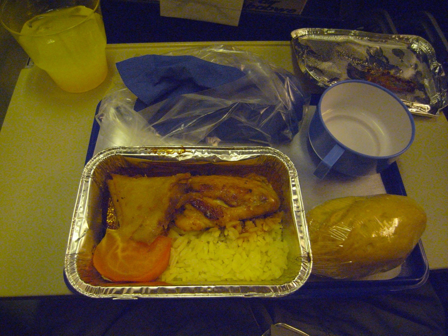 Airline meal of Air Zimbabwe (Harare-Johannesburg)